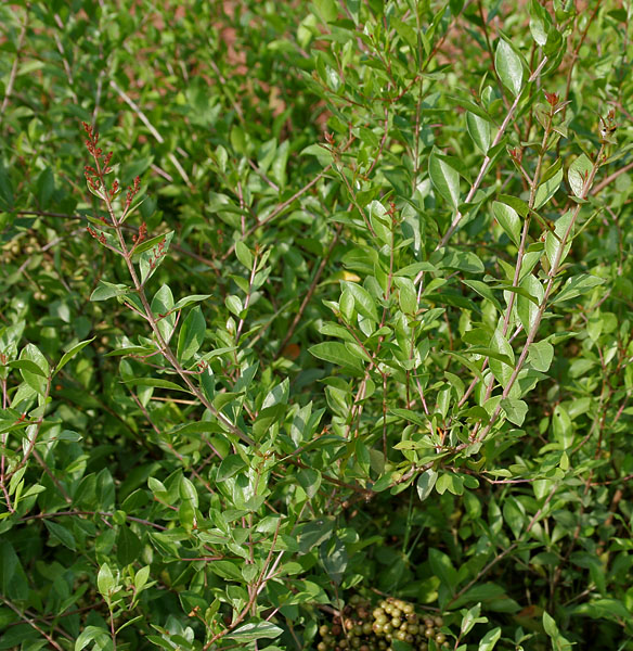 Mehndi or Henna Lawsonia inermis in Hyderabad , India.